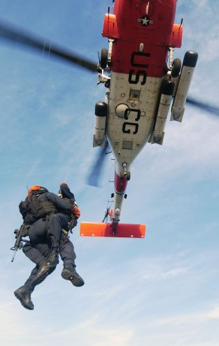 GALVESTON, Texas - Member of a boarding team from Coast Guard Maritime Safety and Security Team Galveston is hoisted up into an HH-60 Jayhawk helicopter after conducted a vertical insertion exercise Thursday, March 1, 2007. Photo by US Coast Guard.